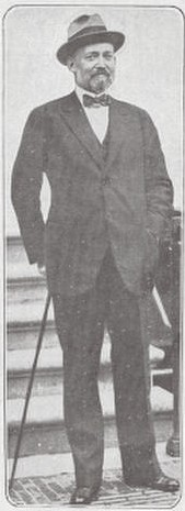 John Work Garrett in the Netherlands